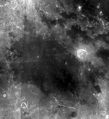 Mare Vaporum, the "Sea of Vapors", is located between the southwest rim of Mare Serenitatis, and the southeast rim of Mare Imbrium. The lunar material surrounding the mare is from the Lower Imbrian epoch, and the mare material is from the Eratosthenian epoch. The mare lies in an old basin or crater that is within the Procellarum basin. The crater Manilius can be seen as the bright circular object to the right of the mare. You can barely make out some of the rays coming off of the crater. To the south is a light colored thin line. This feature is Rima Hyginus. In the upper left side of the photo is the mountain range Montes Apenninus.